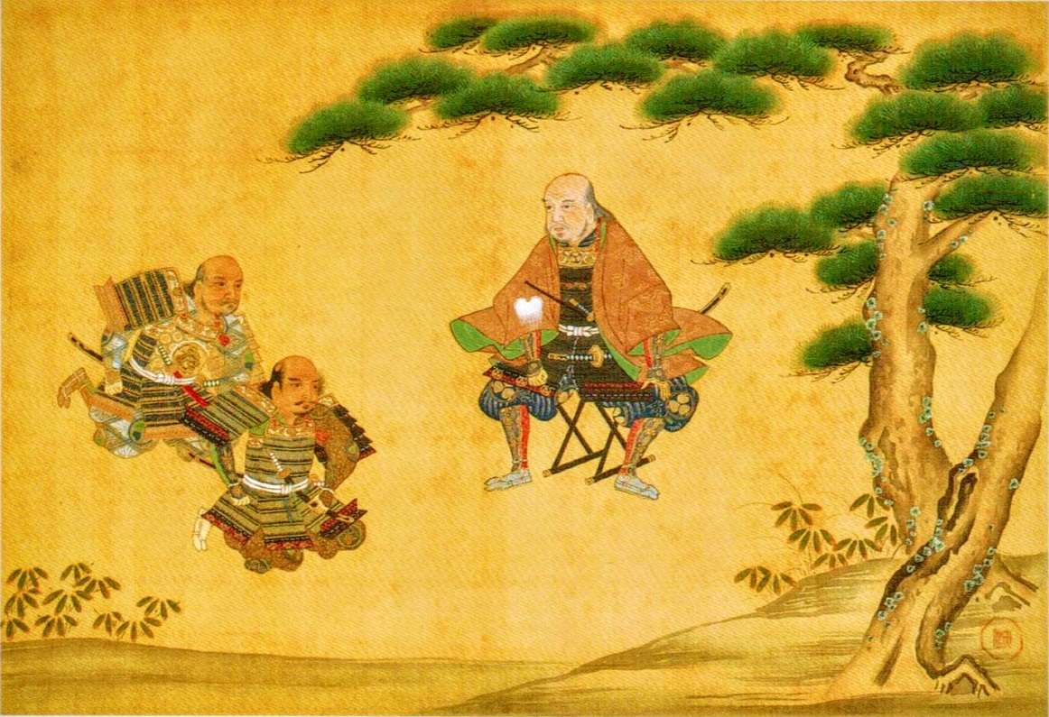 "Portrait of Tokugawa Ieyasu at the Battle of Nagakute", painted in 17th century, a collection of Tokugawa Art Museum.